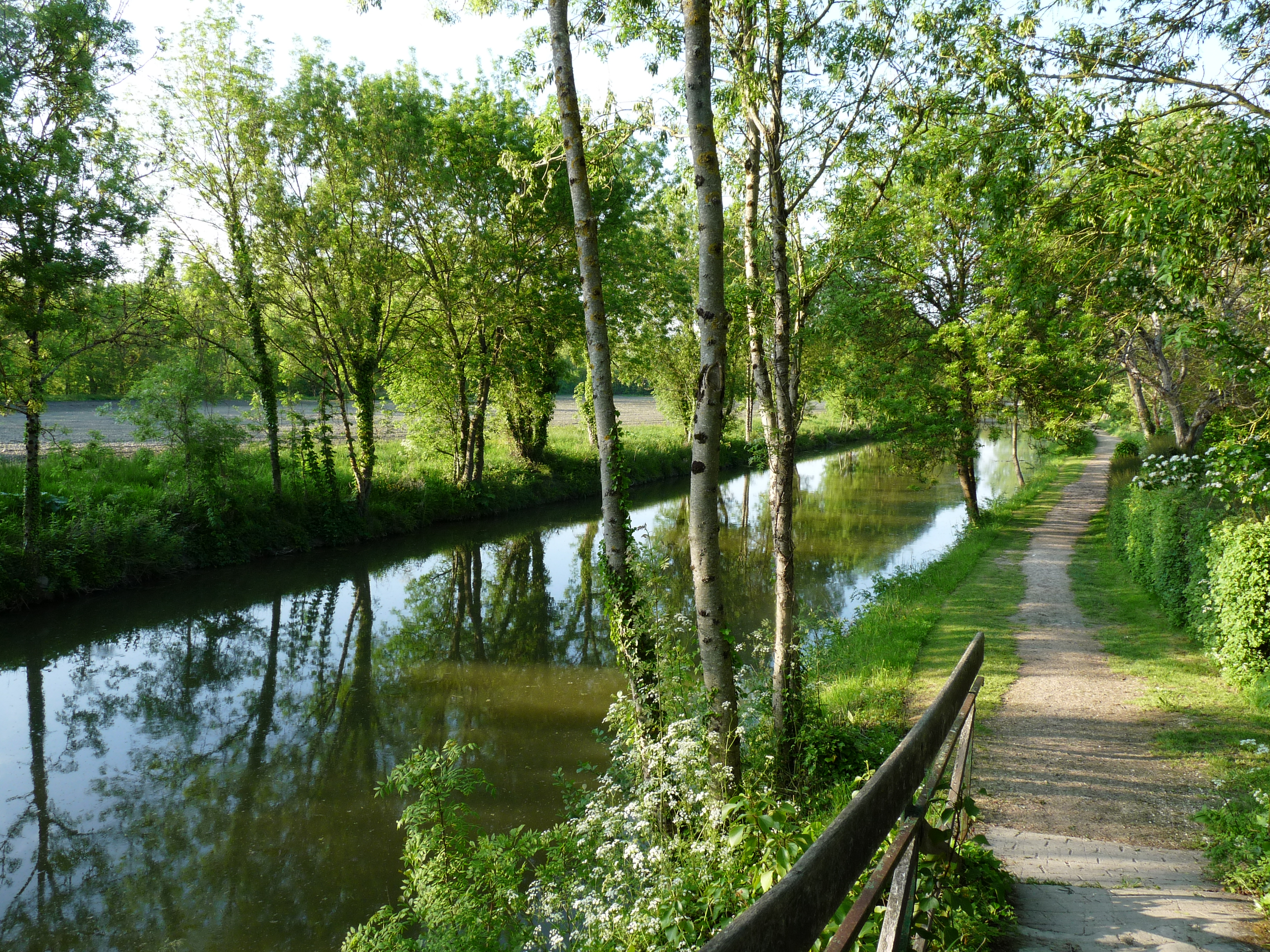 Marais poitevin near Arçais (Deux-Sèvres)